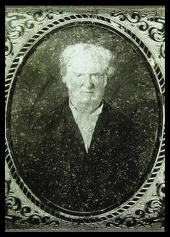 Image of photo of Edmund Bacon